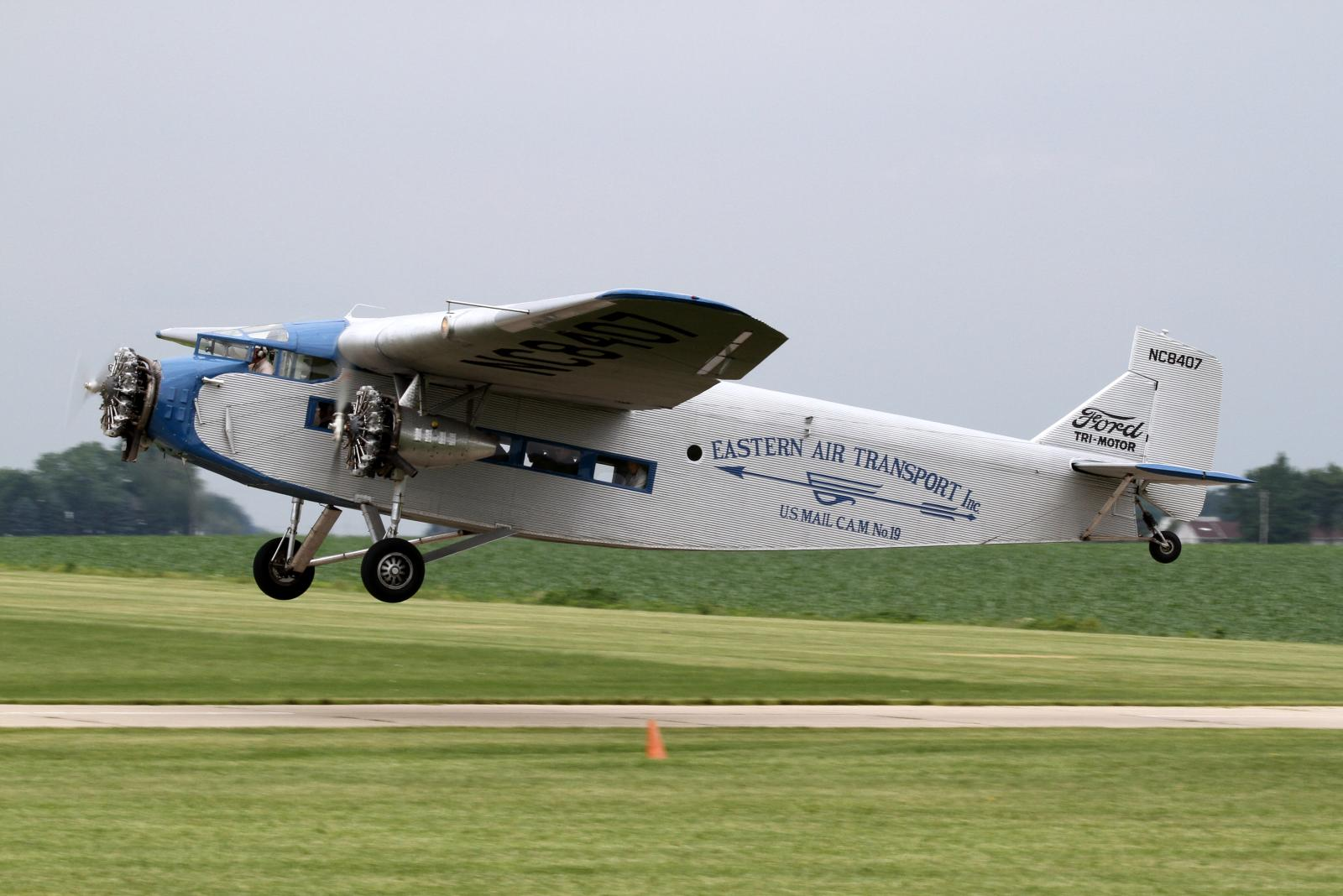 1929 Ford 4-AT-E C/N 69